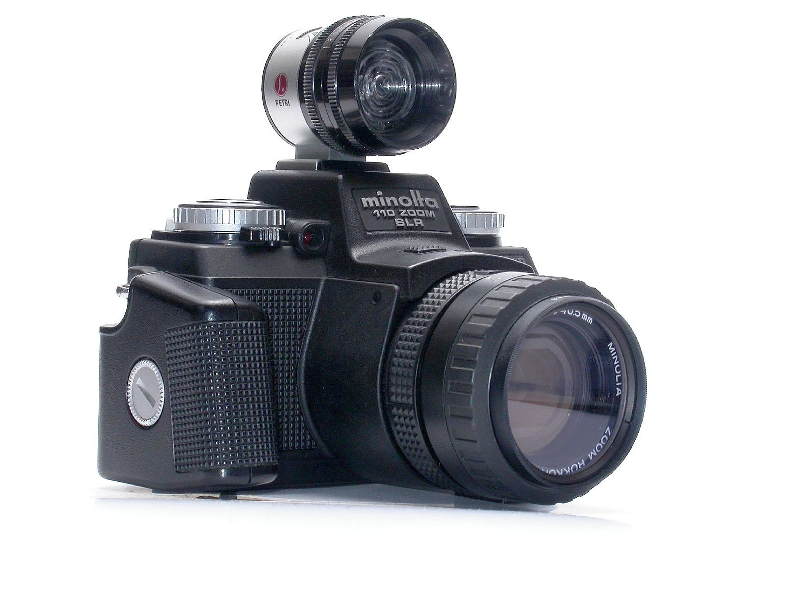 Minolta 110 Zoom SLR mk II, a macro-zoom slr for the 110 cartridge format.